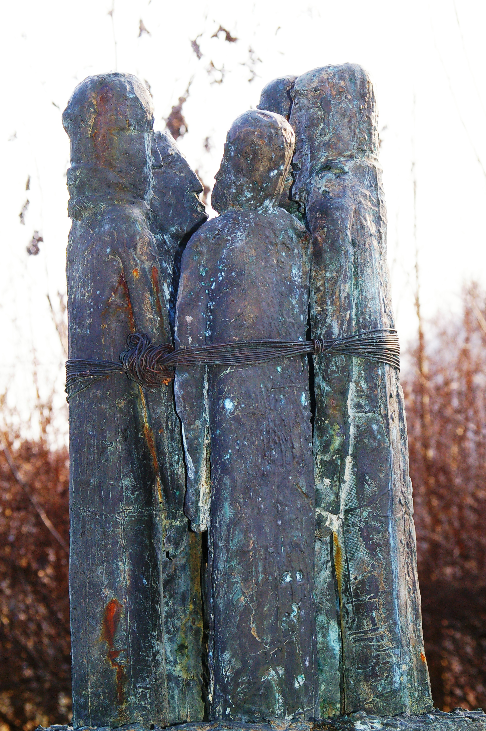 memorial Sankt Pantaleon